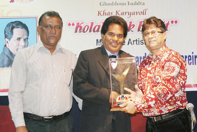 Hortencio Pereira receiving Tiatr Academy of Goa (TAG) Award